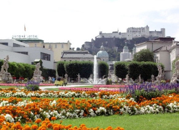 Austria, Salzburg, Mirabell Palace